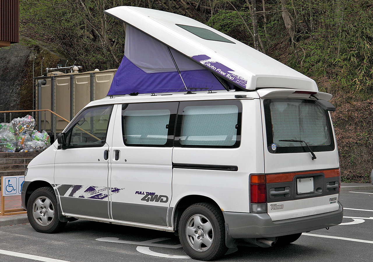 Mazda Bongo Friendee with Auto Free Top.